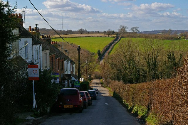 Doleham This terrace of houses is the hamlet of Doleham. There are no other streets.